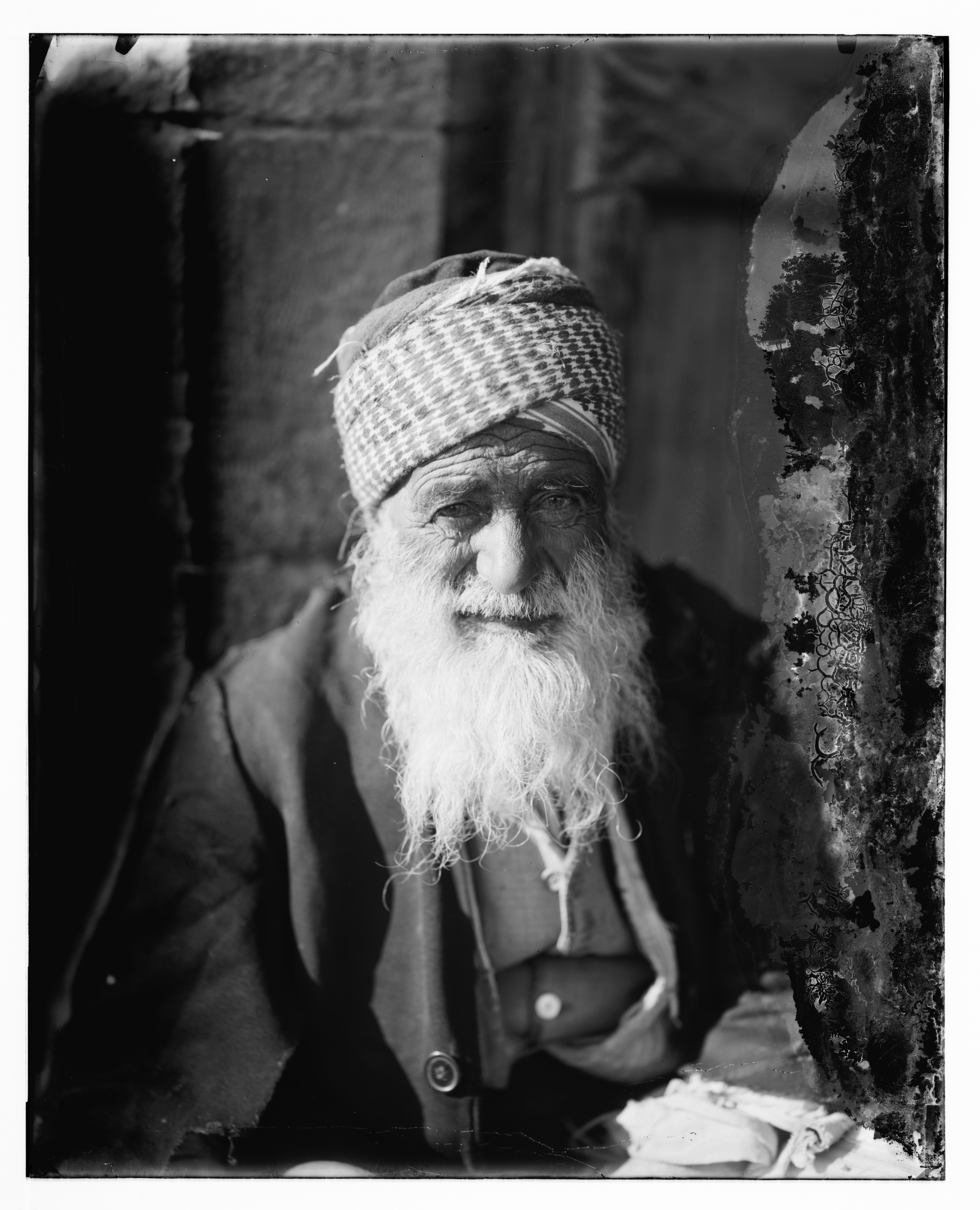 Mizrahi Yemenite Jew from Yemen. Original title from: Catalogue of photographs made by the American Colony ... 1914: Costumes and characters, etc. Group of Yemenite Jews. Copy print verso: Yemenite Jew.